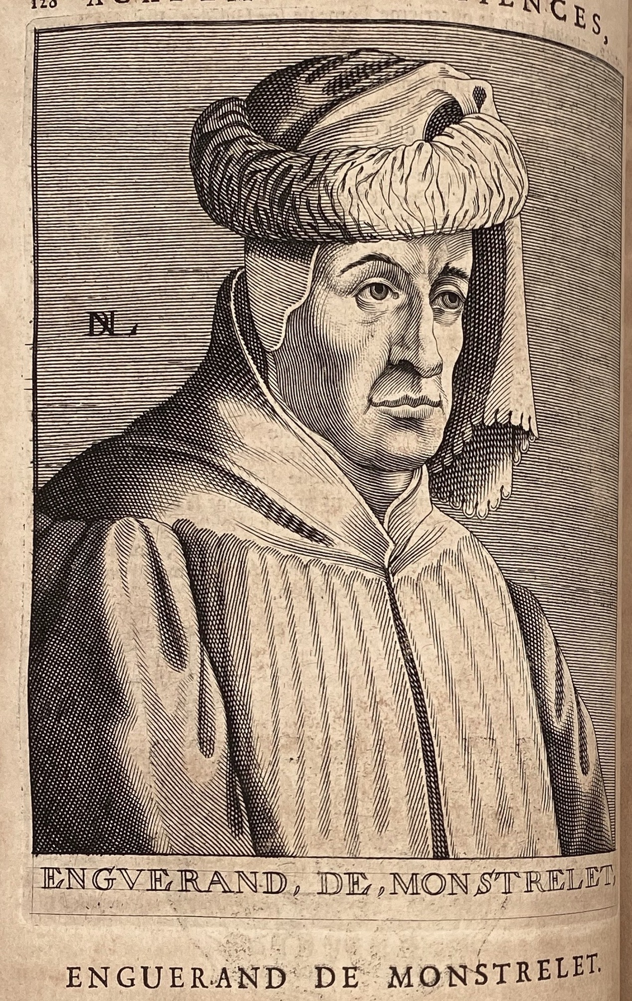 Half-length portrait of Enguerrand de Monstrelet, French chronicler, facing to the right. Engraved by Nicolas de Larmessin. Isaac Bullart. Académie Des Sciences Et Des Arts. - Amsterdam: Elzevier, 1682